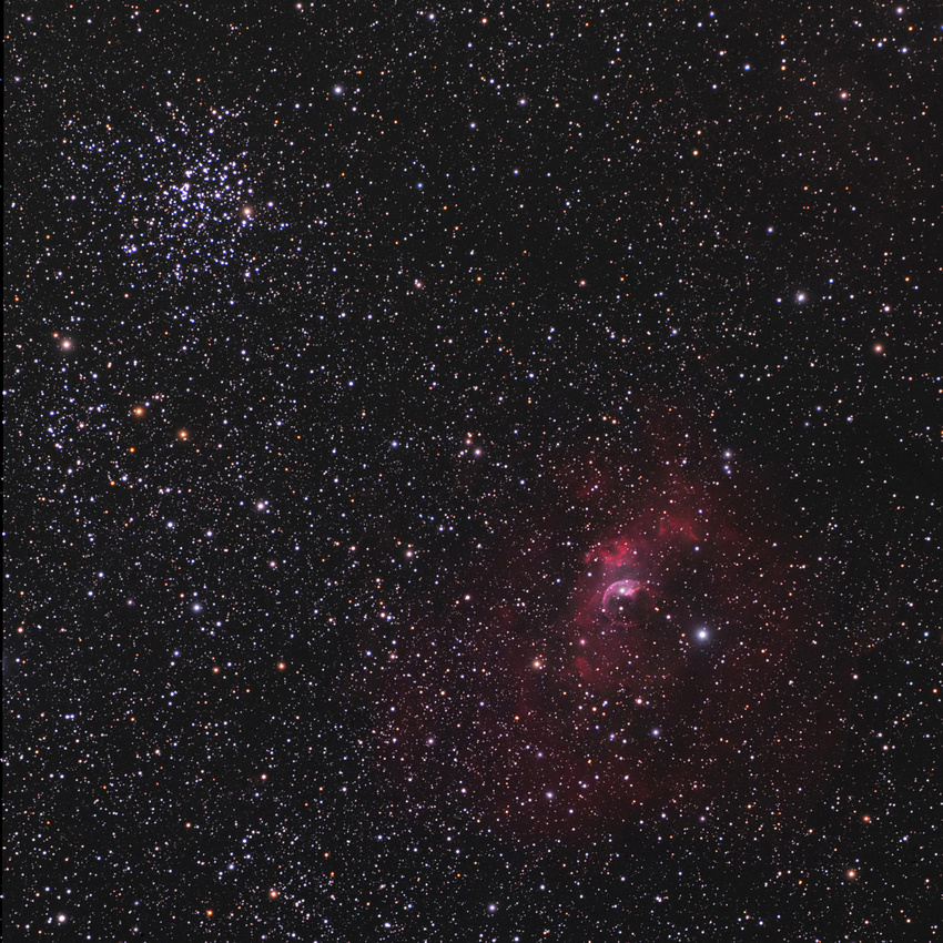 Bubble Nebula and M52 widefield image to show appearance in low power telescope